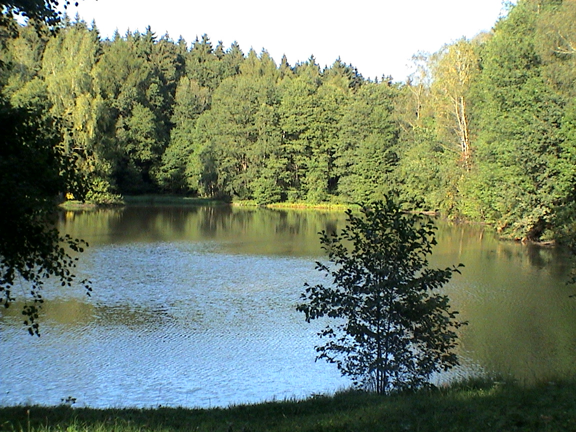 pond "Schlötenteich" in the forest area "Werdauer Wald"